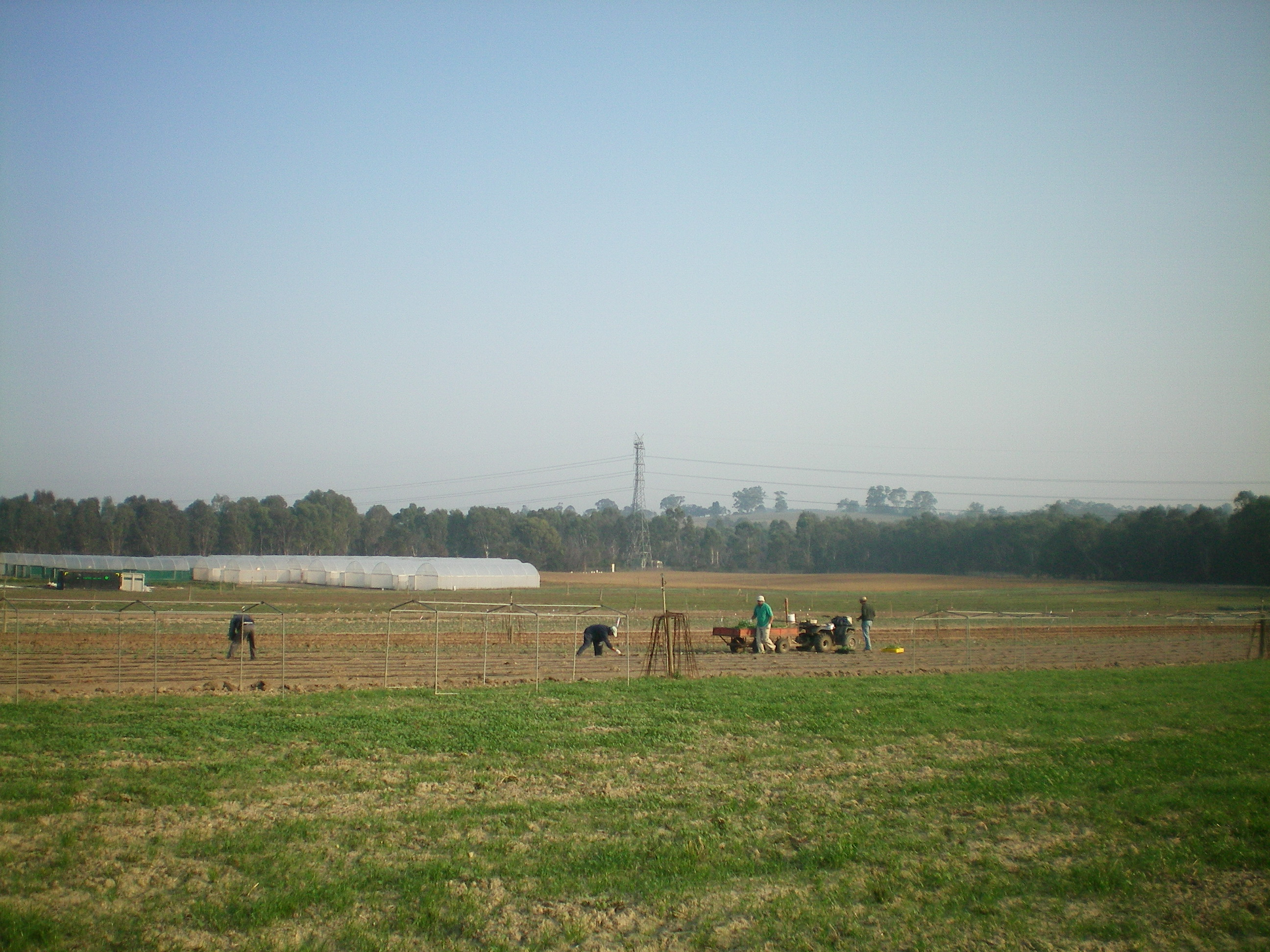 Farming at Lower Templestowe, Victoria.